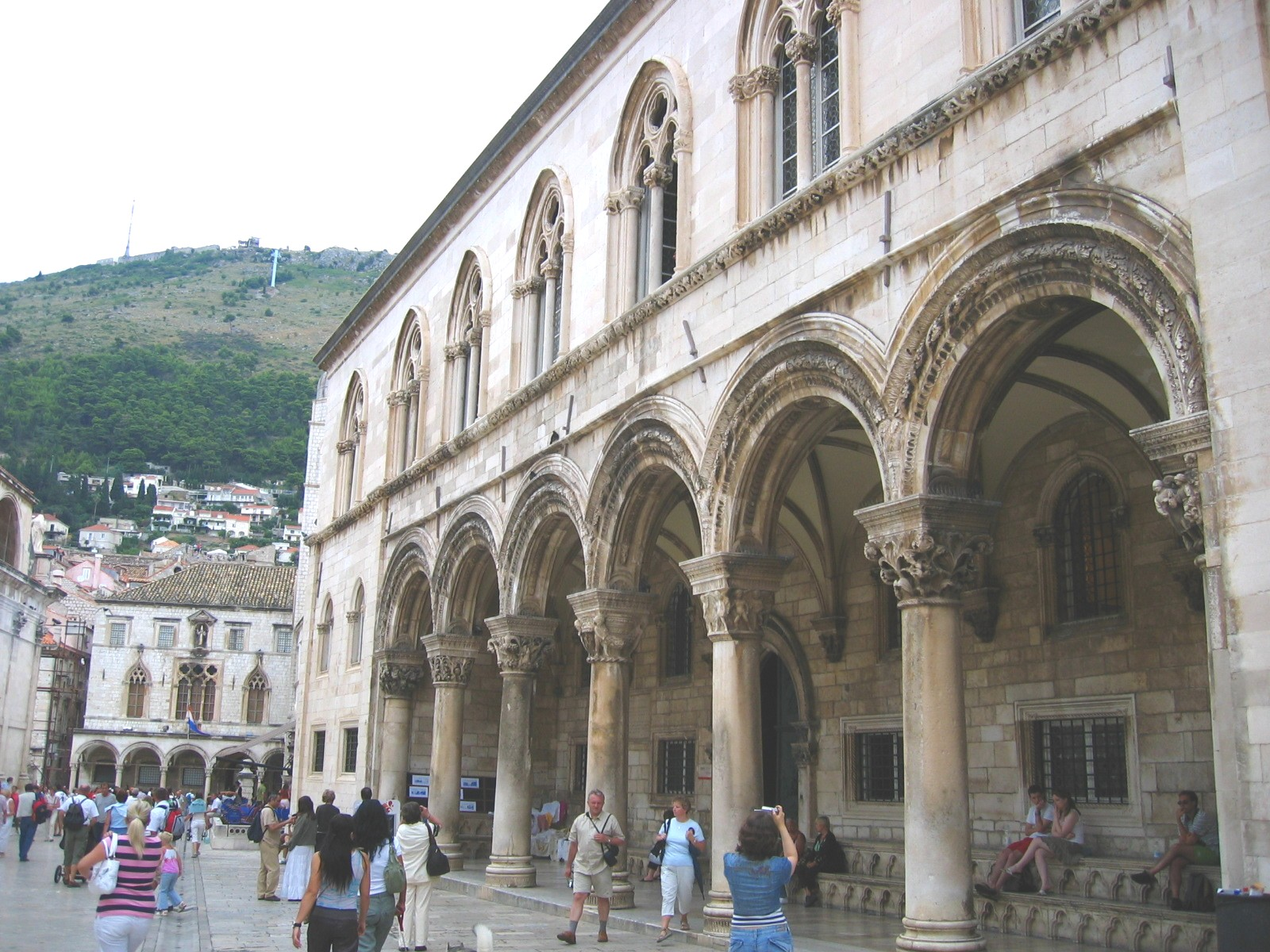 Rector's Palace, Dubrovnik, Dalmatia, Croatia